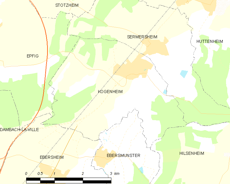 Map of French municipality